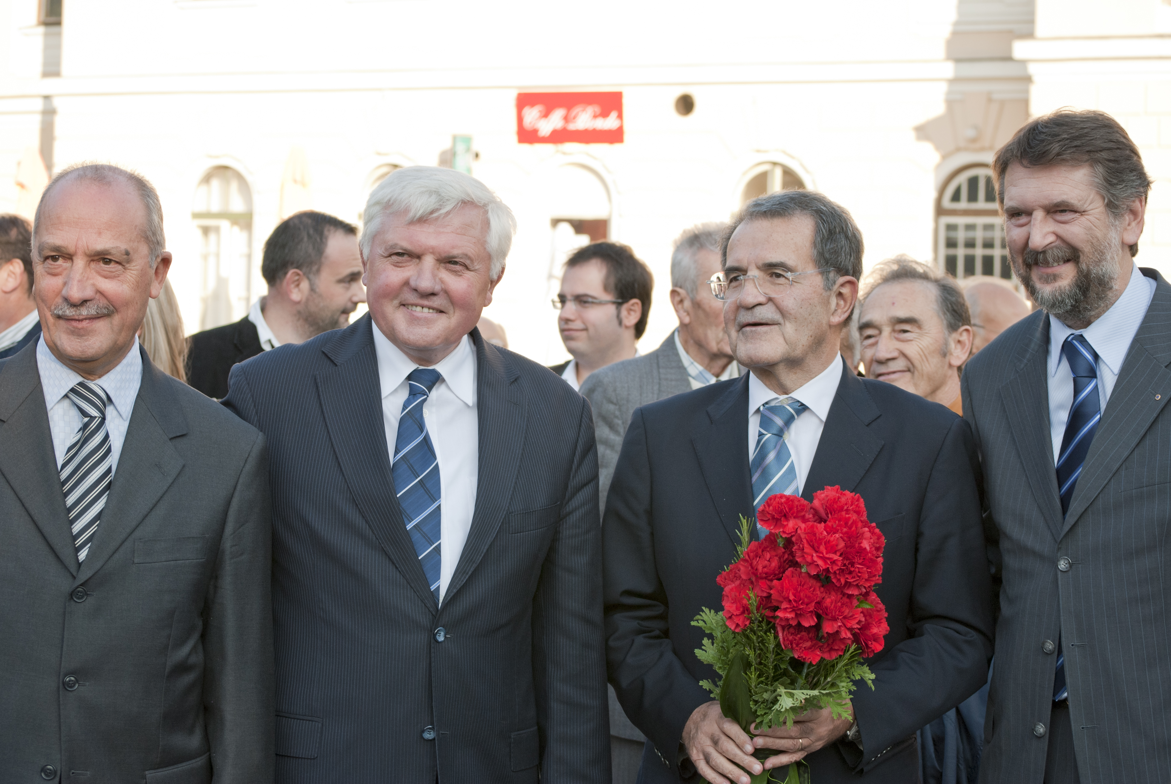 Romano Prodi during the commemoration ceremony of the fall of the border Italy - Slovenia on 2004